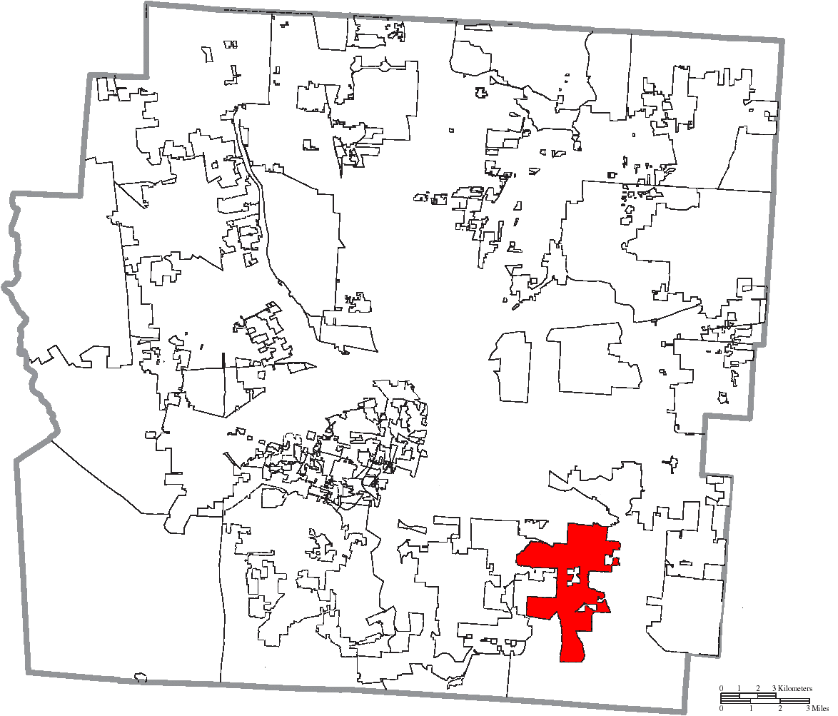 Map of the municipal and township boundaries of Franklin County, Ohio, United States, as of the 2000 census, with the location of the city of Groveport highlighted. Township borders are shown only in unincorporated areas in order to differentiate incorporated and unincorporated areas more clearly. Due to the extremely fractured nature of the county's municipal boundaries, details of boundaries and the identity of township islands may be inaccurate.